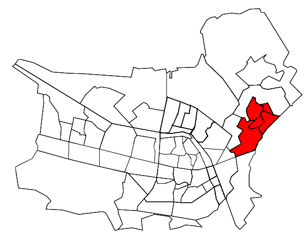 A previous village in the present city Tilburg, the Netherlands